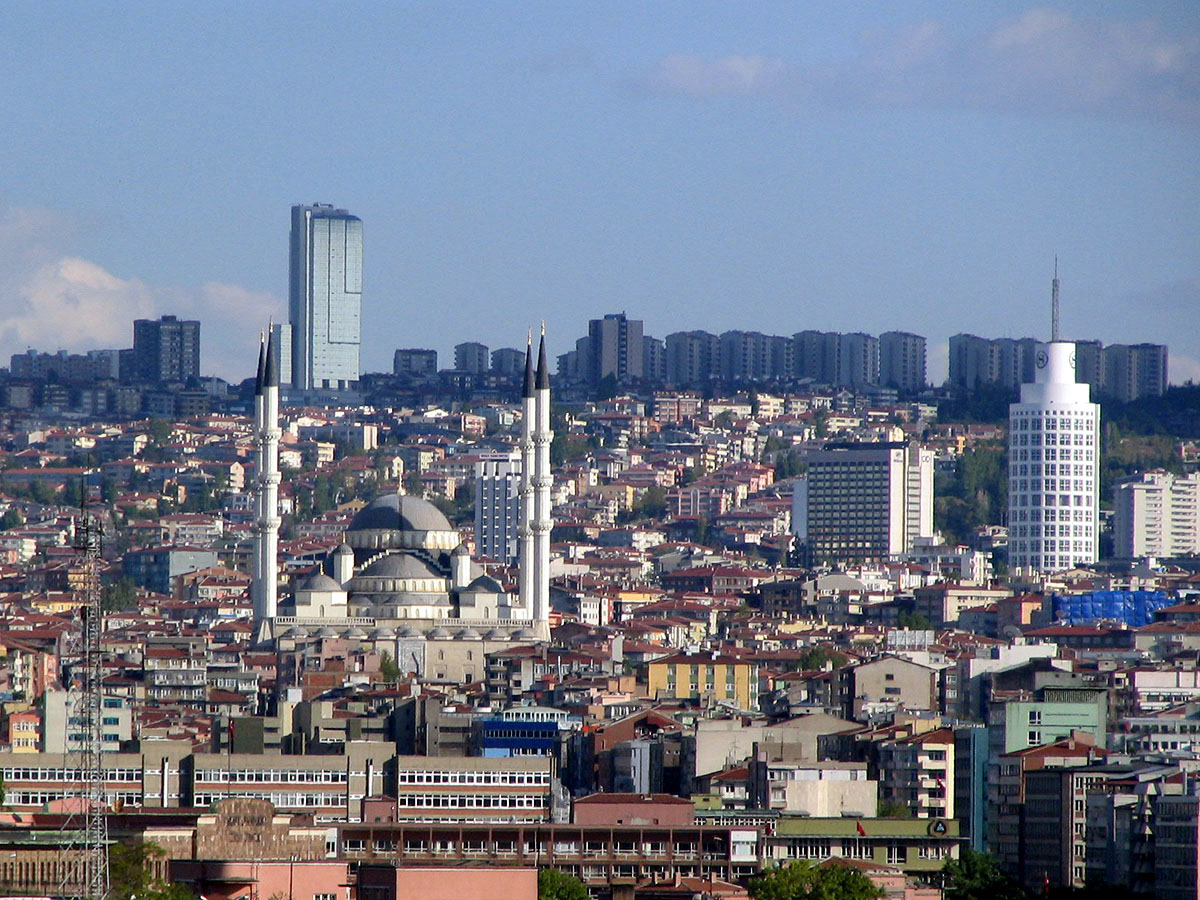 Ankara, Turkey. May 2006. Photo by Winstonza talk